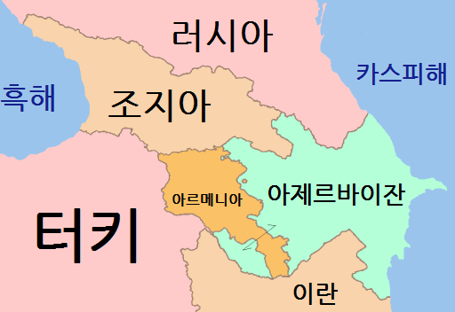 A Political map of the countries in the South Caucasus Transcaucasia region.